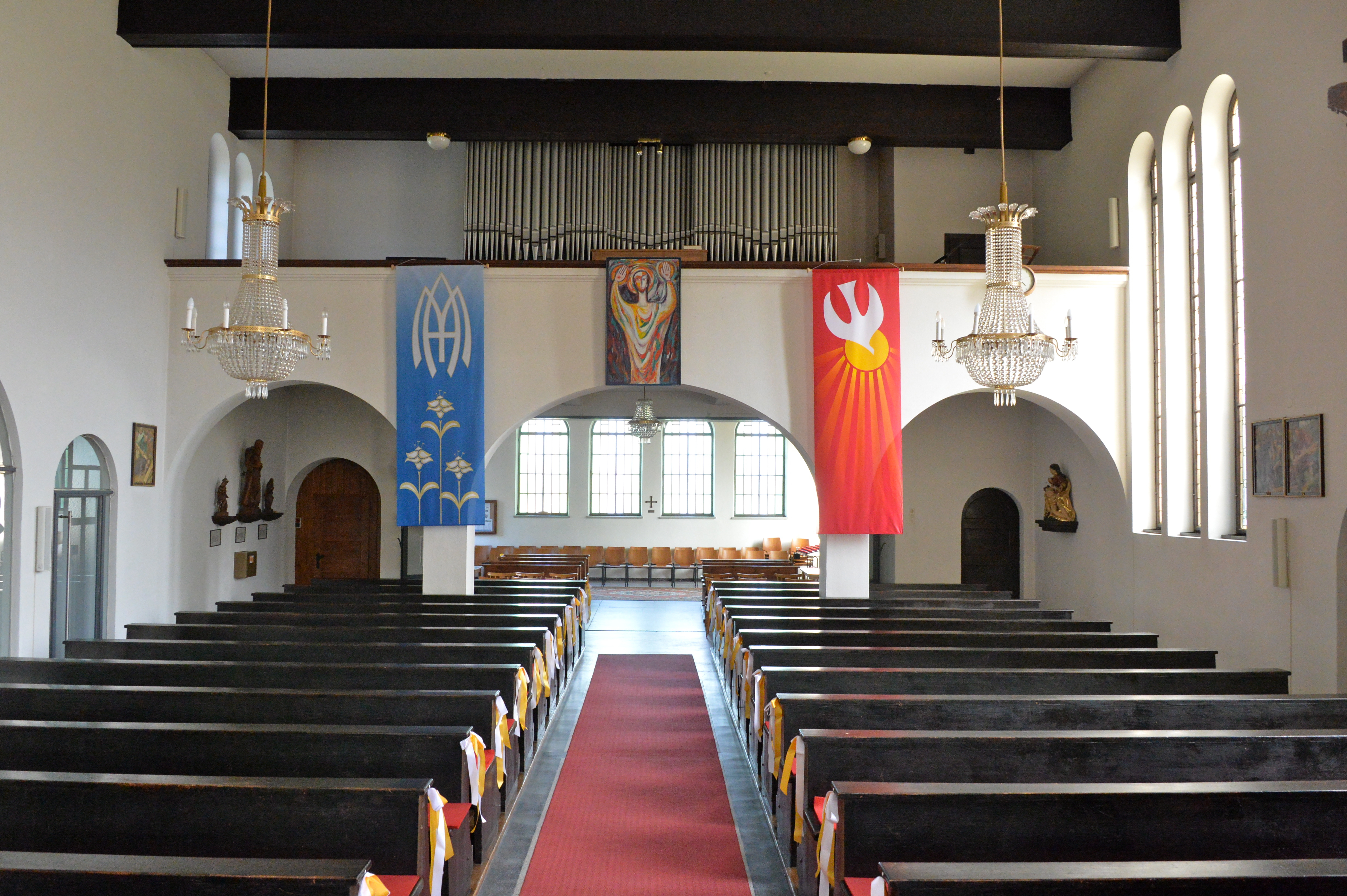 Nave and organ gallery of the parish church Our Lady on Kirchenstrasse #23, market town Velden am Wörthersee, district Villach Land, Carinthia, Austria, EU